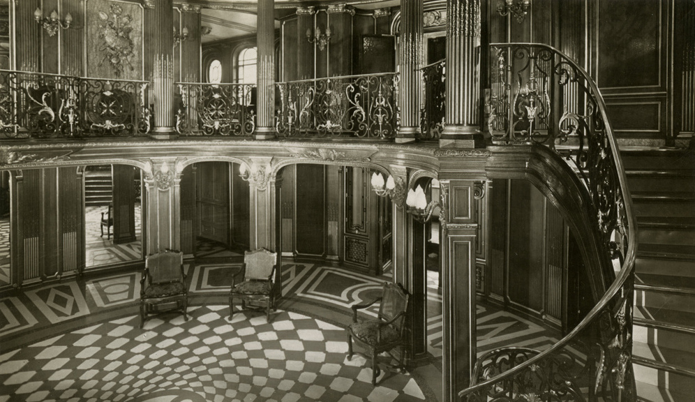 First Class Grand Foyer and staircase of the SS France of 1912